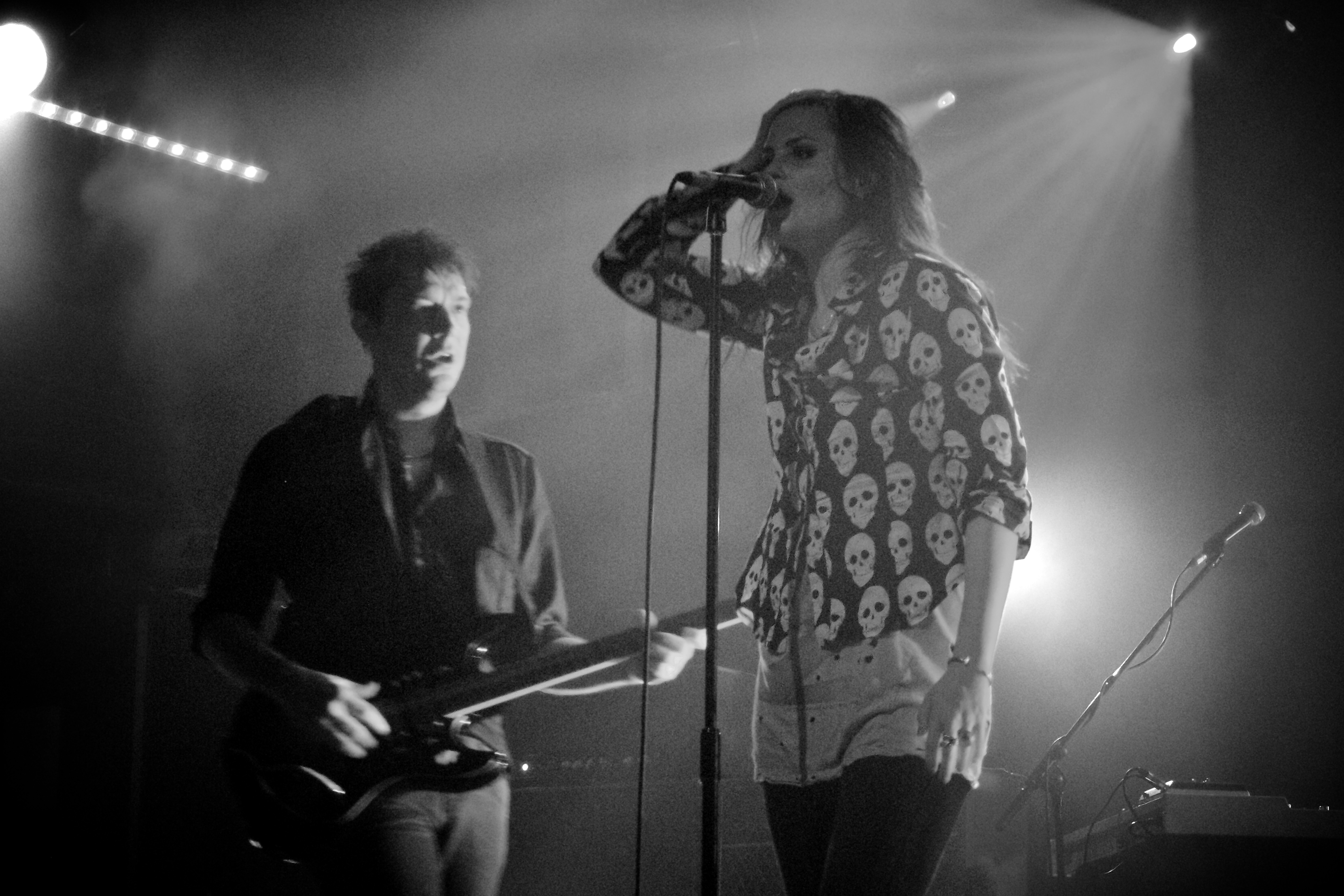 Heaven, 31st March 2011